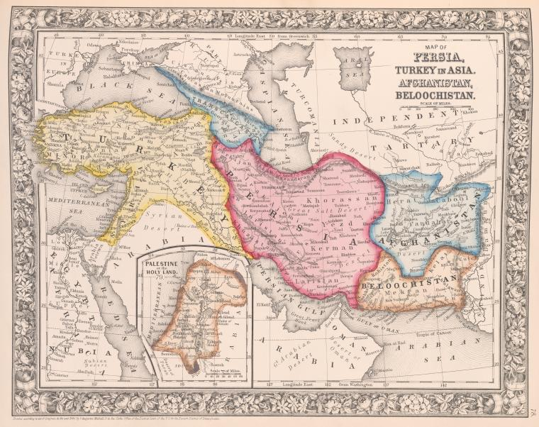 Map of Persia, Turkey in Asia, Afghanistan, Beloochistan ; Palestine, or the Holy Land [inset]. (1863, c1860)